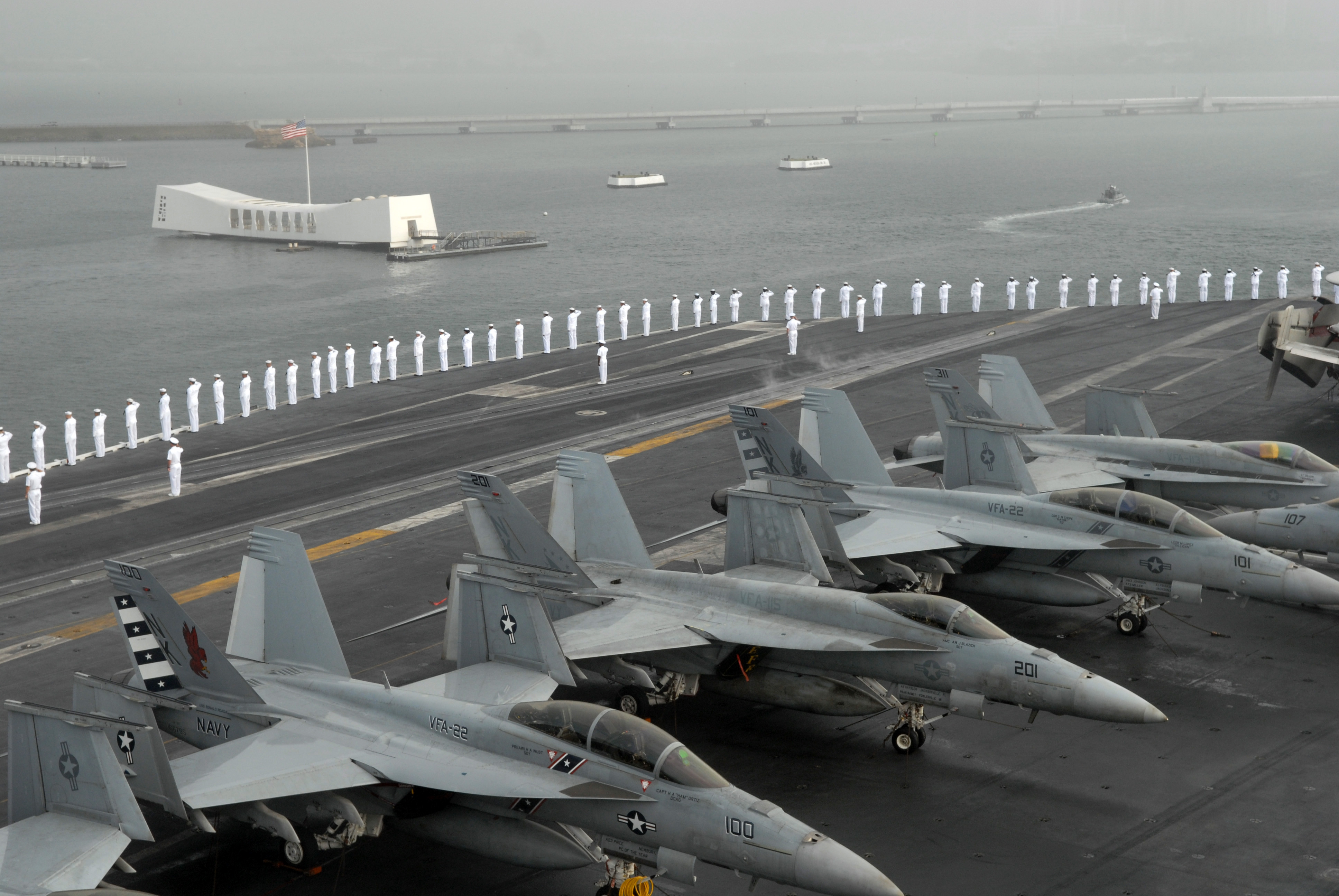 HONOLULU, Hawaii (Nov. 17, 2008) Sailors man the rails on the flight deck of the Nimitz-class aircraft carrier USS Ronald Reagan (CVN 76) as they pass by the USS Arizona memorial in Pearl Harbor. Ronald Reagan pulled into Pearl Harbor for a scheduled port visit. The Ronald Reagan Carrier Strike Group is on a scheduled deployment, currently operating in the U.S. 7th Fleet area of responsibility. (U.S. Navy photo by Mass Communication Specialist 3rd Class Joshua Scott/Released)